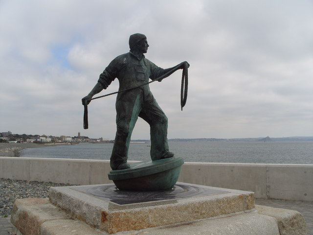 Statue of Fisherman Statue to remember all the Fishermen lost at sea, nr Newlyn. Penzance is in the background.